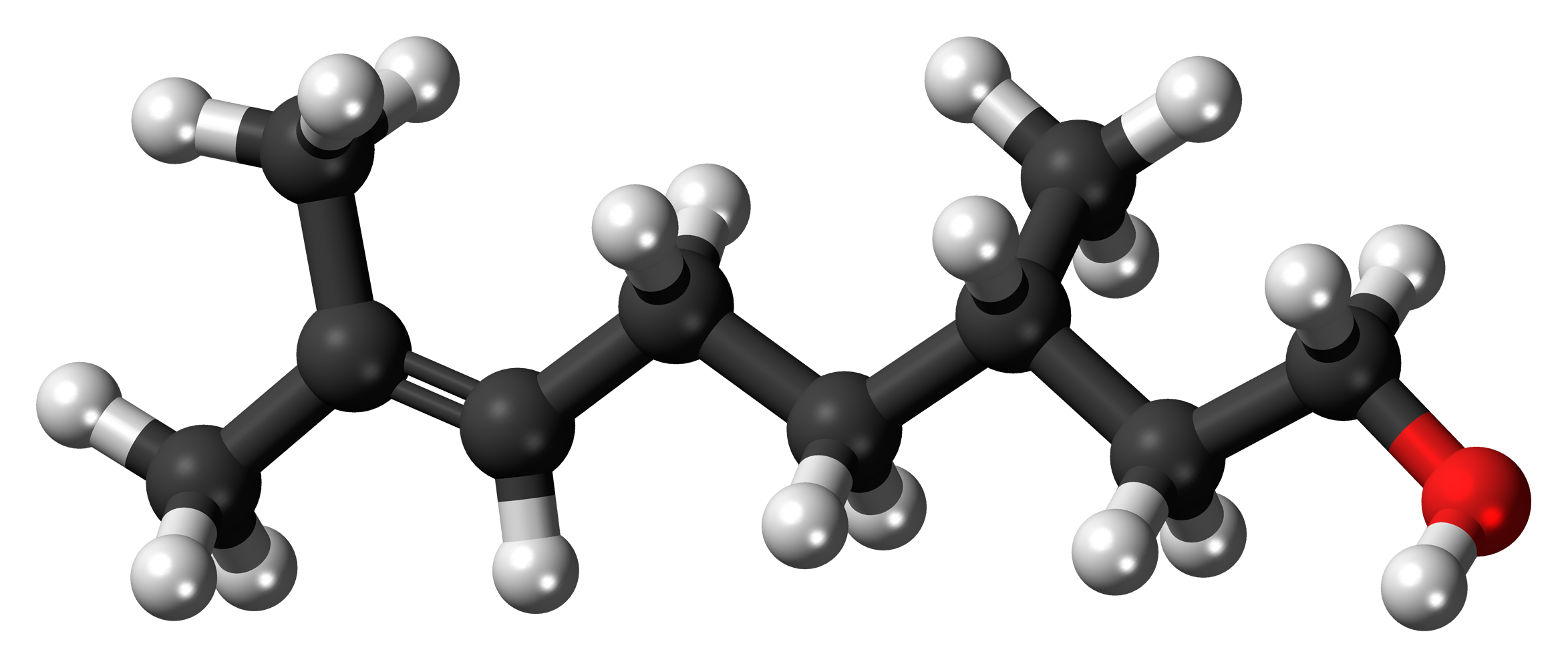 Ball-and-stick model of the citronellol molecule, a compound used in perfumes and insect repellents. This image shows the (-) isomer. Colour code: Carbon, C: black Hydrogen, H: white Oxygen, O: red